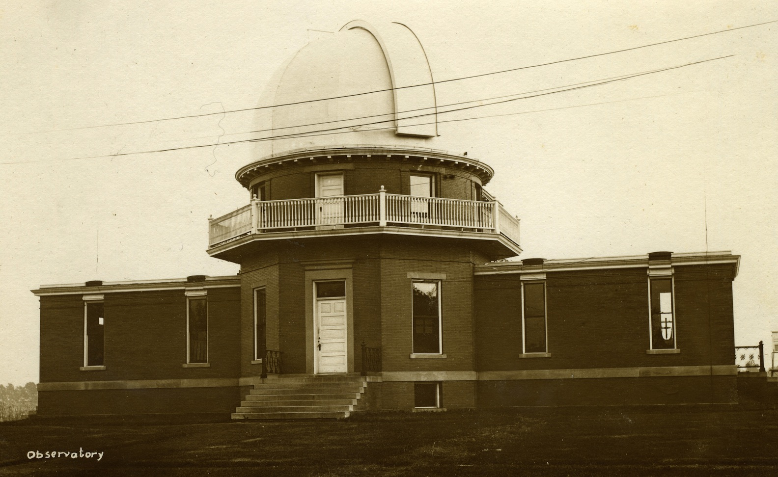 Postcard from 1905 showing the University of Illinois Observatory in Urbana, Illinois.